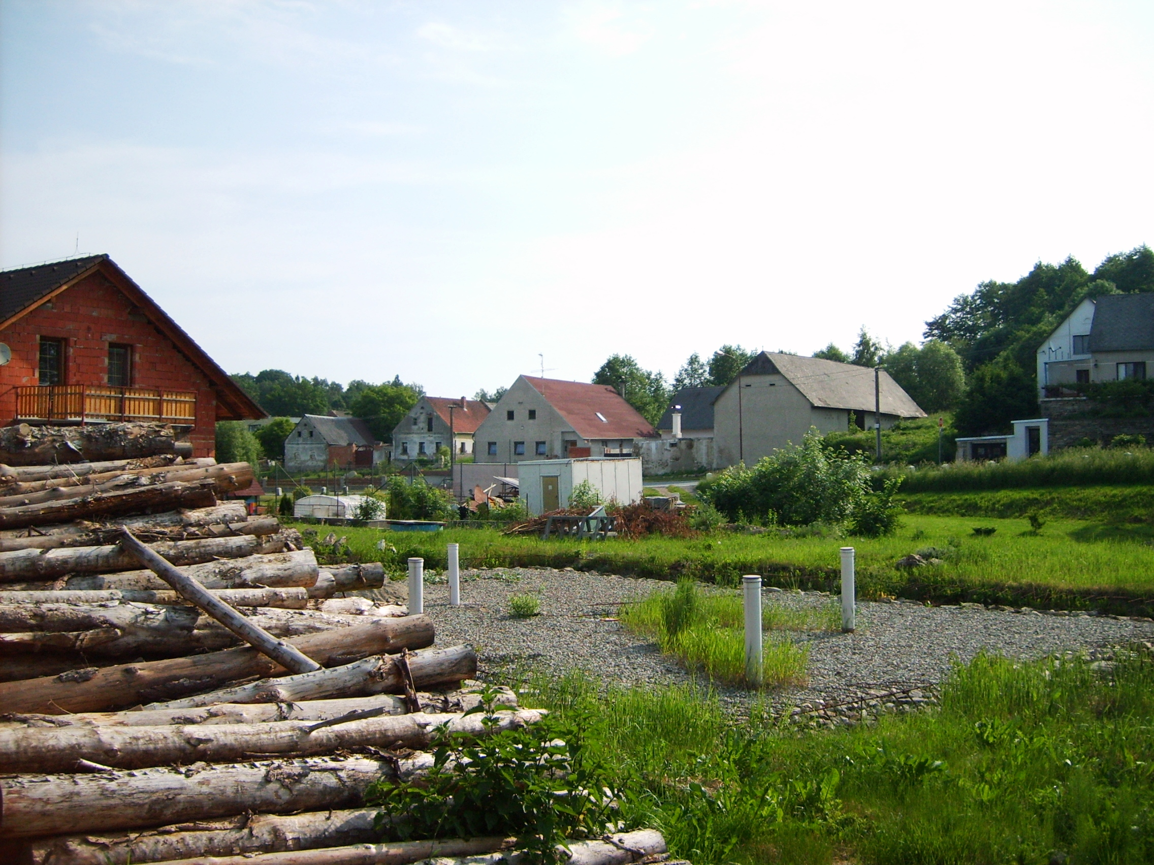 Lower part of Horní Pěna village in south Bohemia.